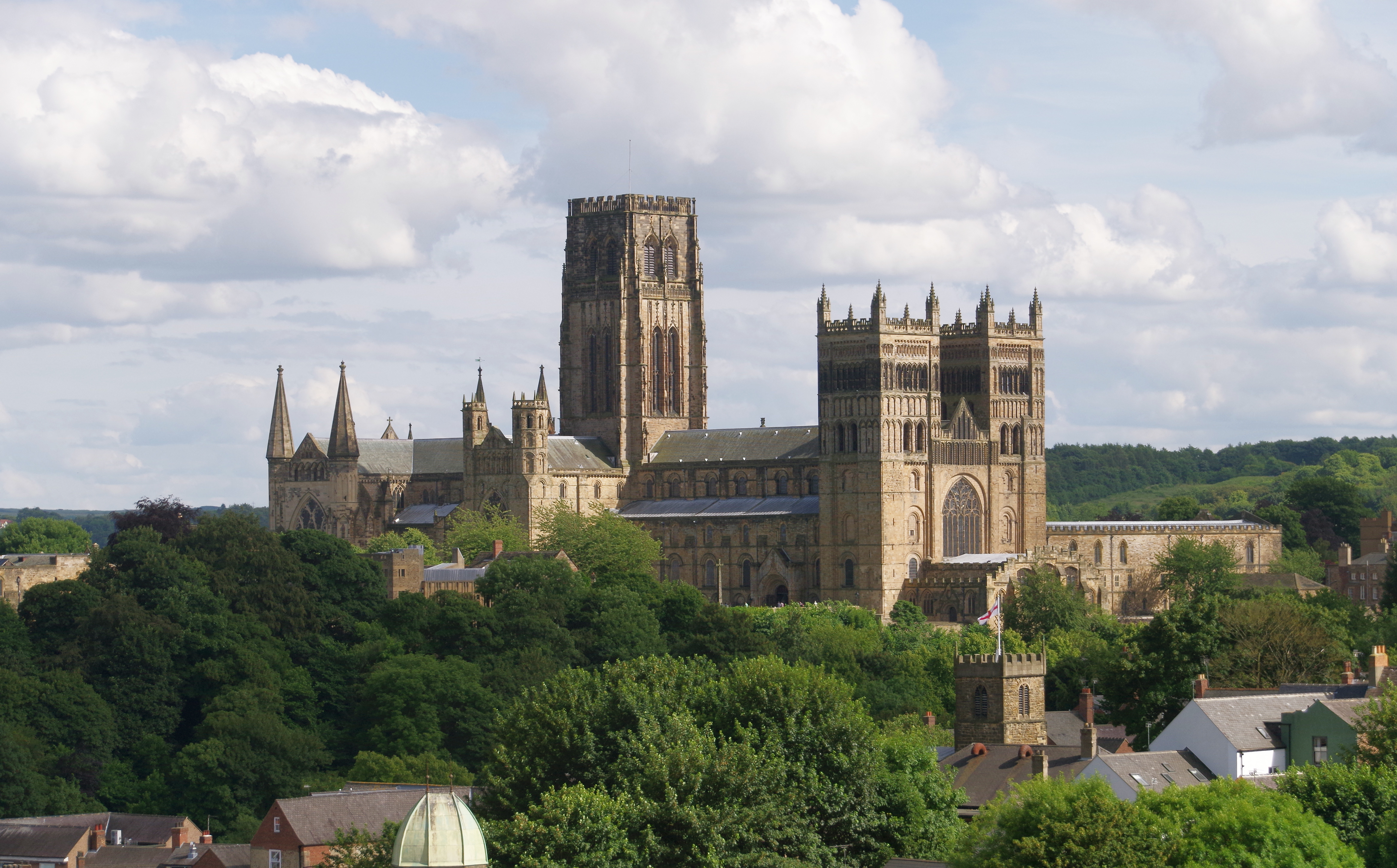 Durham Cathedral, seen from a train on the East Coast Main Line.